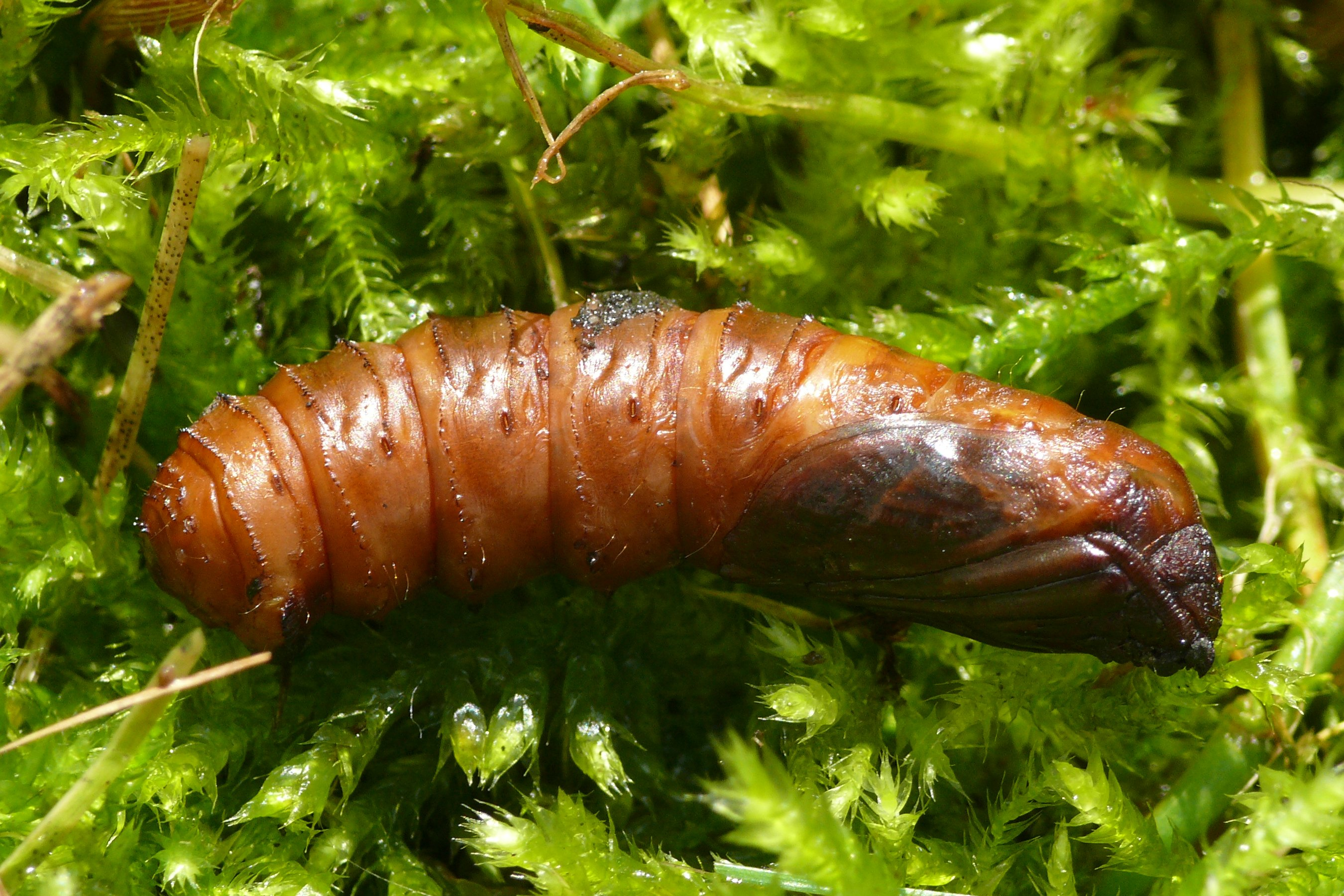 Pupa of female Orange Swift' (Triodia sylvina) found under Verbascum thapsus (Great or Common Mullein). Landkreis Ebersberg, Bavaria, Germany